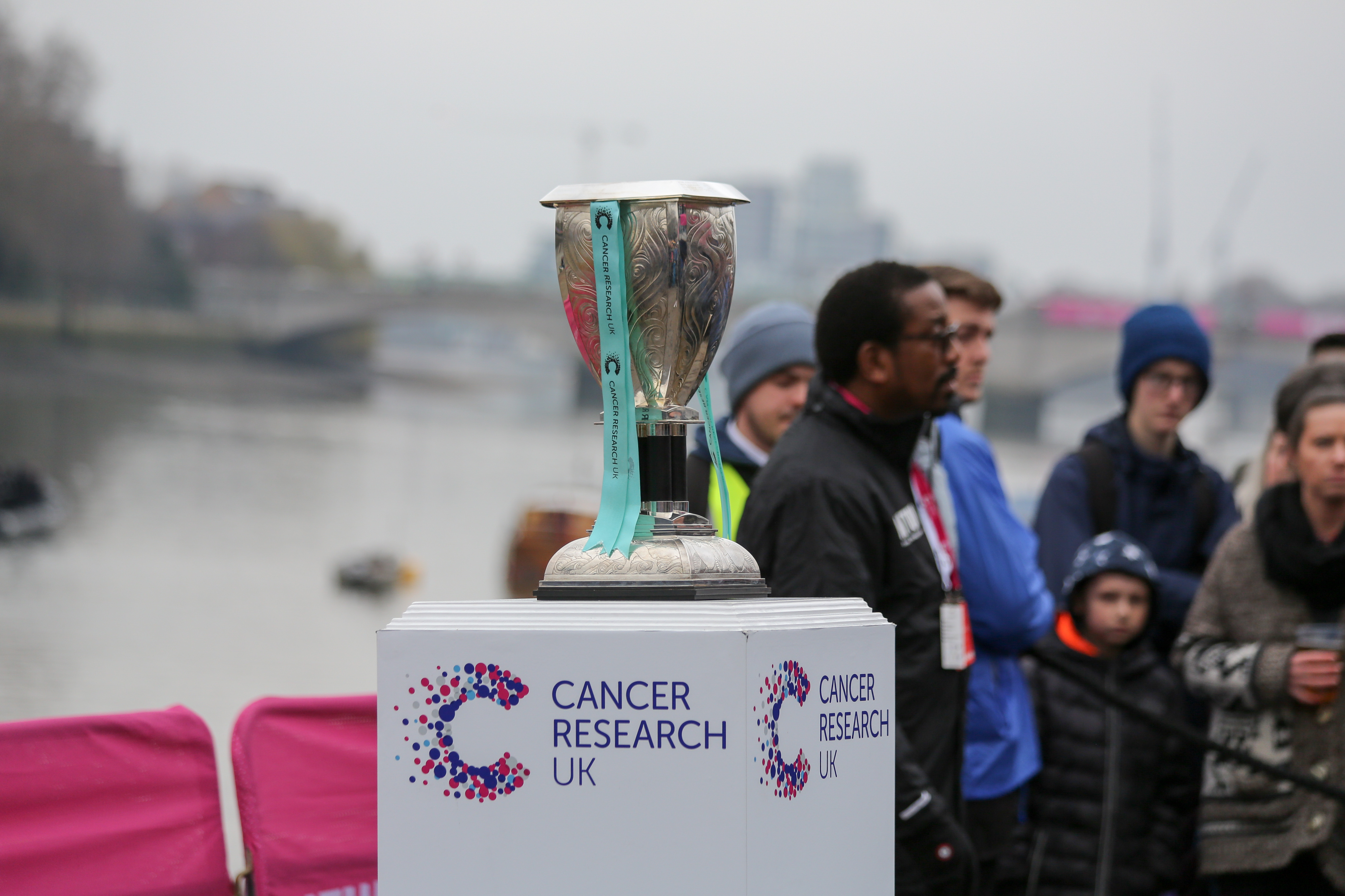 The trophy for The Women's Boat Race, shown here before the 2018 race.